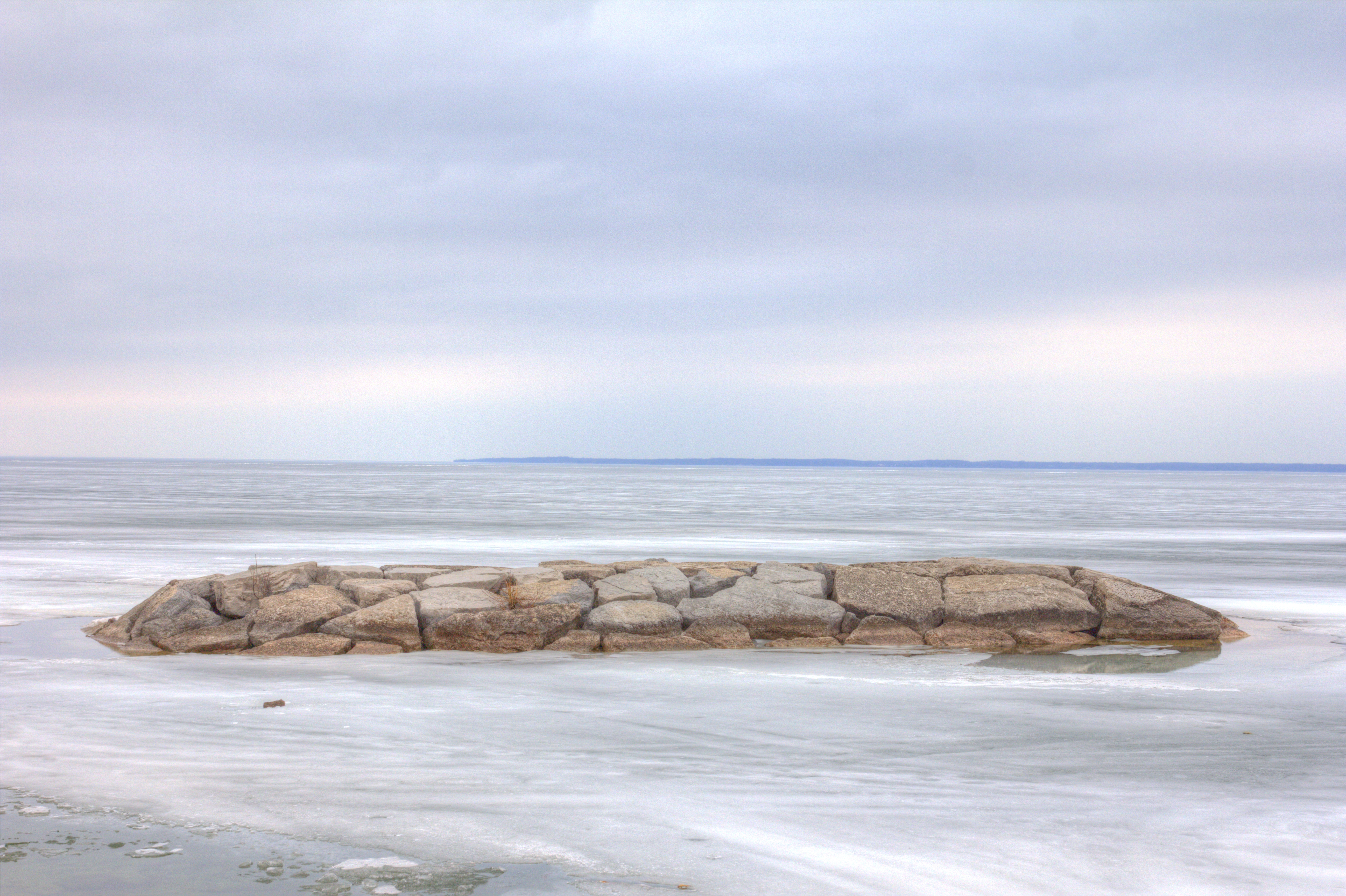 Another shot from Lake Simcoe, the ice extends so far out